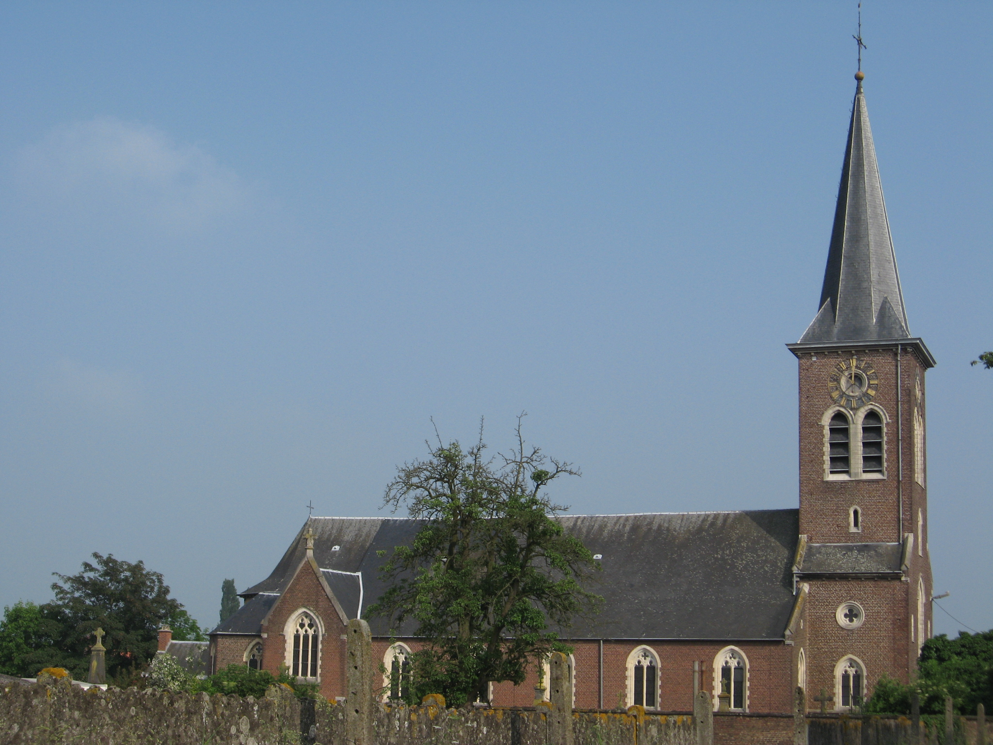 Church of Saint Peter in Chains in Attenhoven, Landen, Flemish Brabant, Belgium